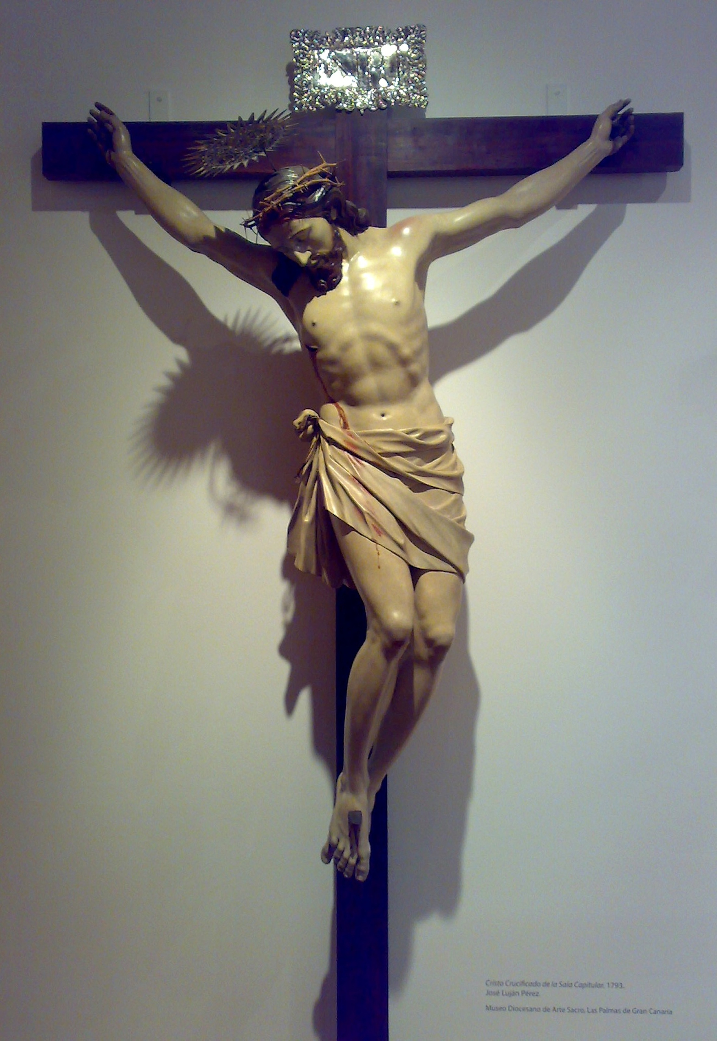 Christ crucified of the Sala Capitular, 1793. Canary Islands Cathedral, Las Palmas de Gran Canaria. One of the masterpieces of the Grandcanarian sculptor José Luján Pérez.